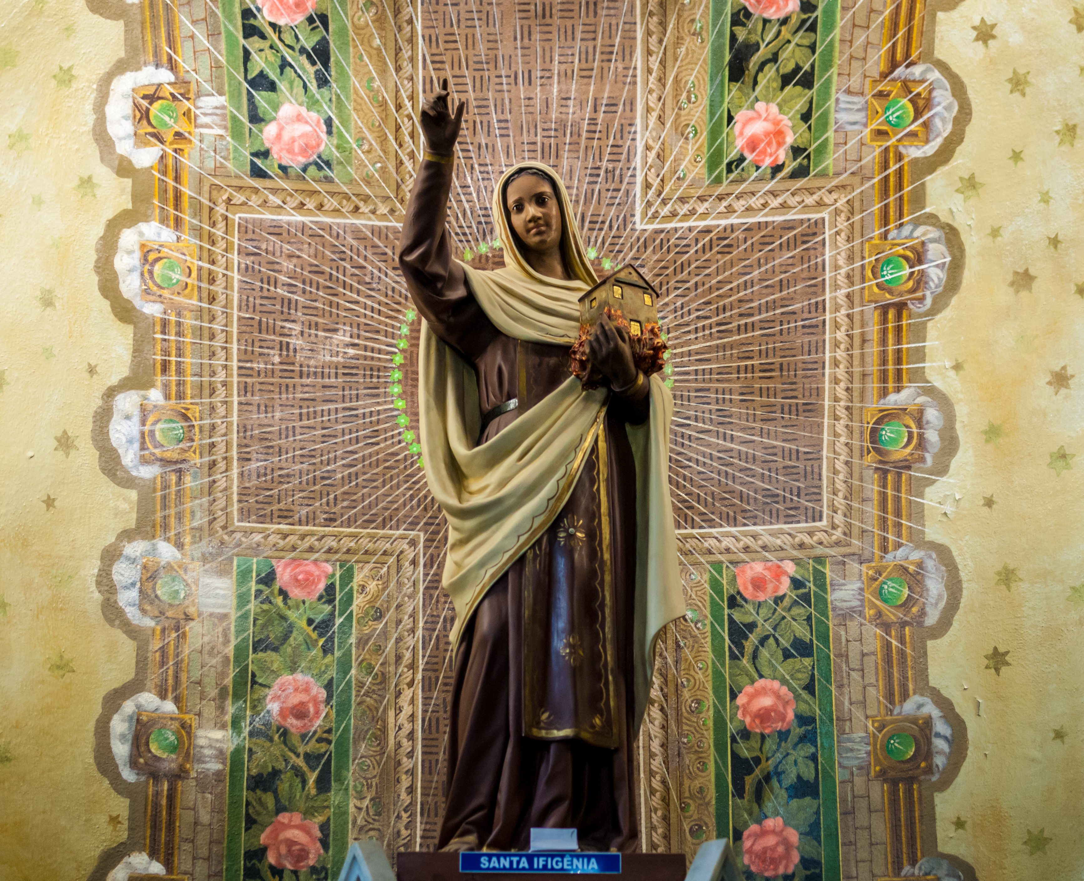 Santa Ifigênia